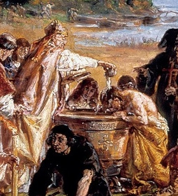 Czcibor's baptizm